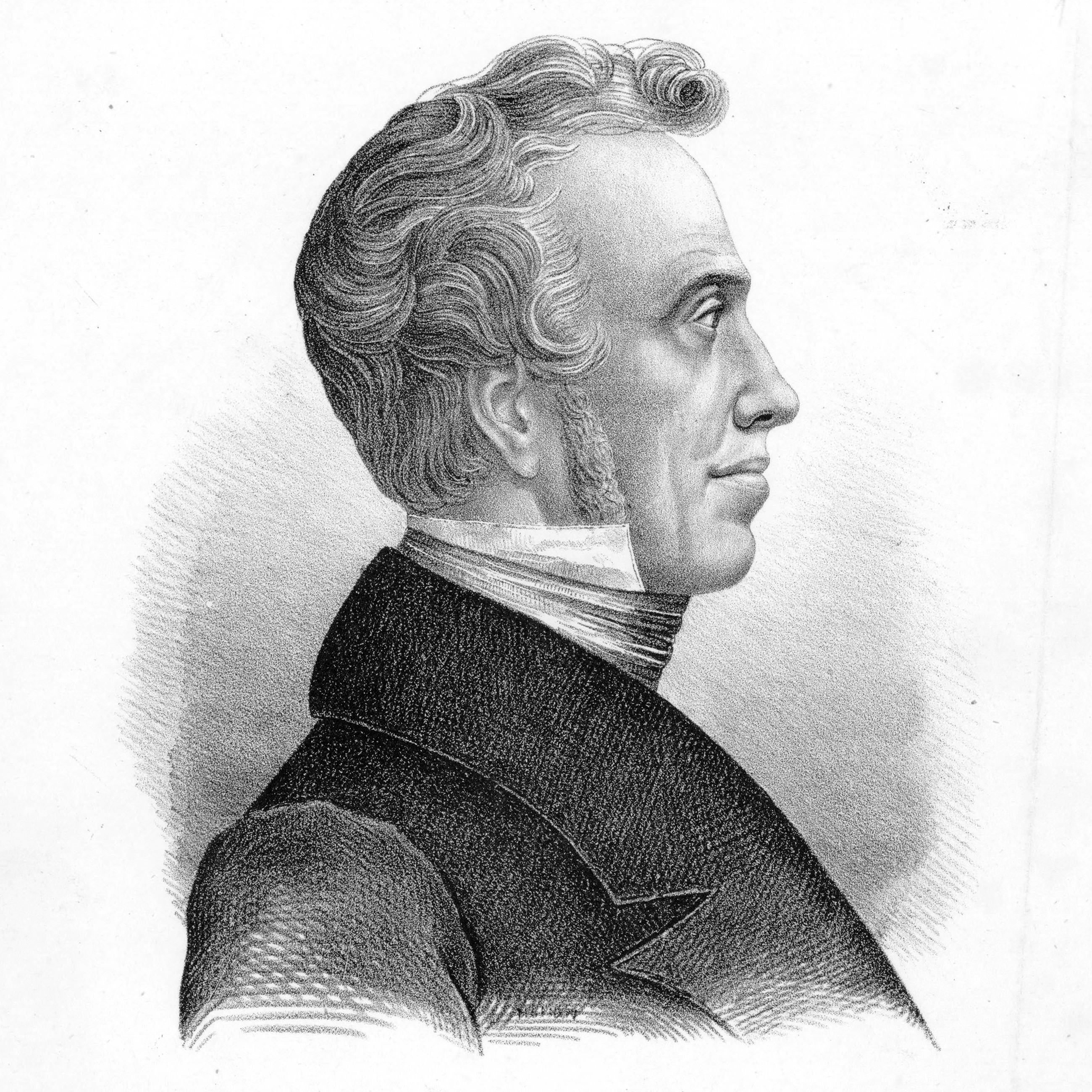 portrait of Sigismund Neukomm